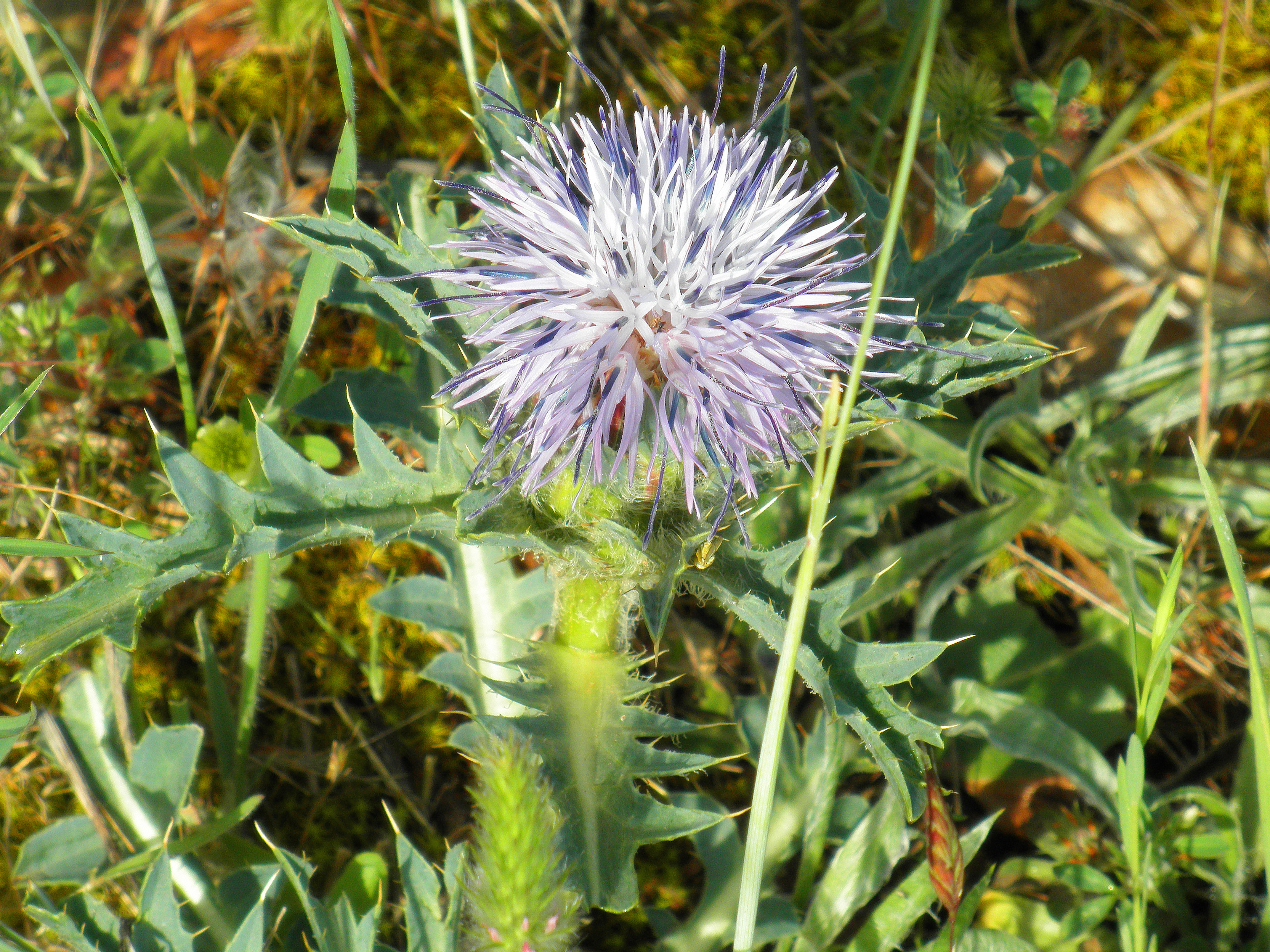 Carduncellus monspelliensium habit Campo de Calatrava, Spain